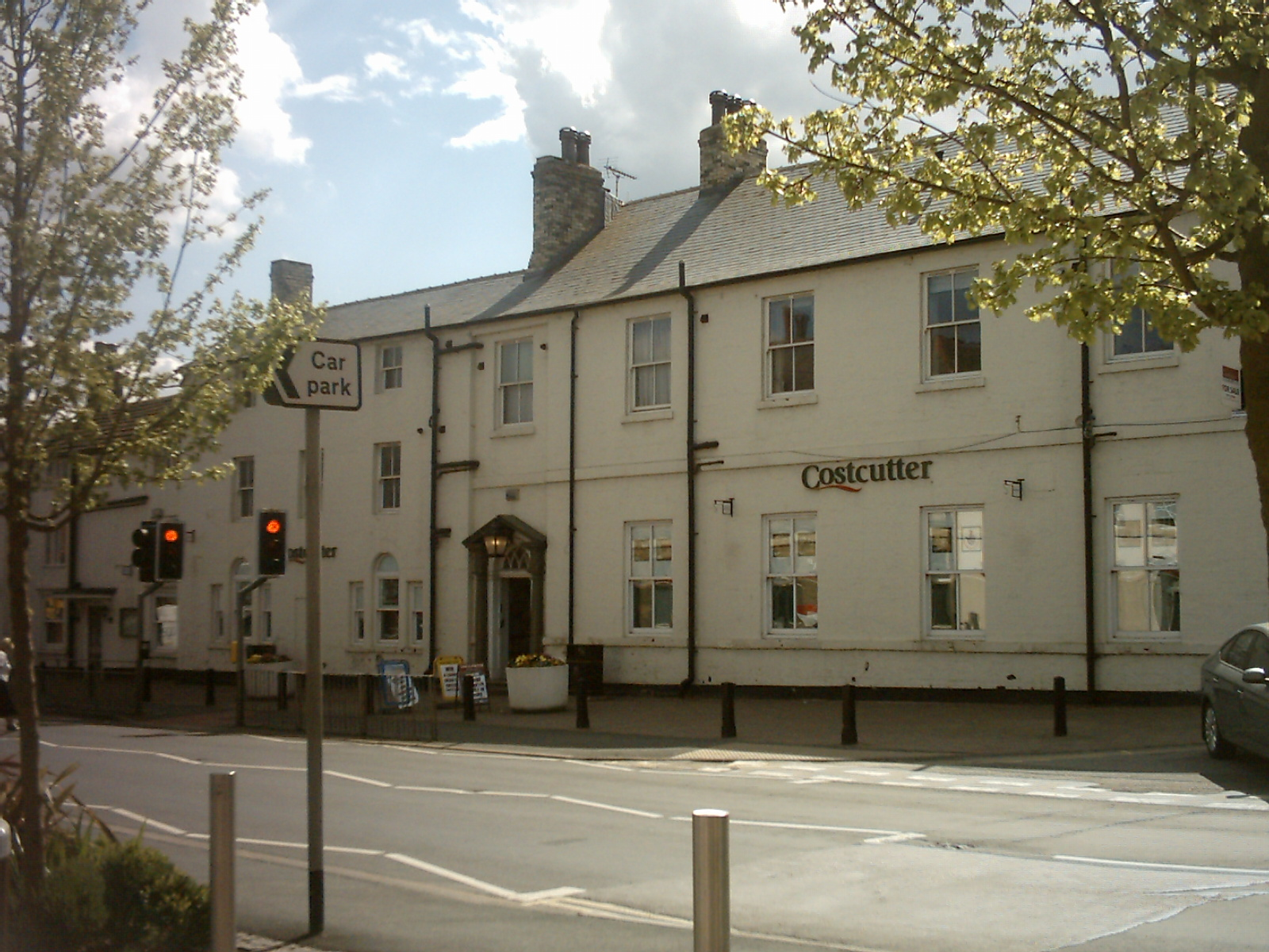 Costcutter on High Street, Boston Spa, West Yorkshire. Taken midday on the 26th April 2009. The building is the former Royal Hotel.